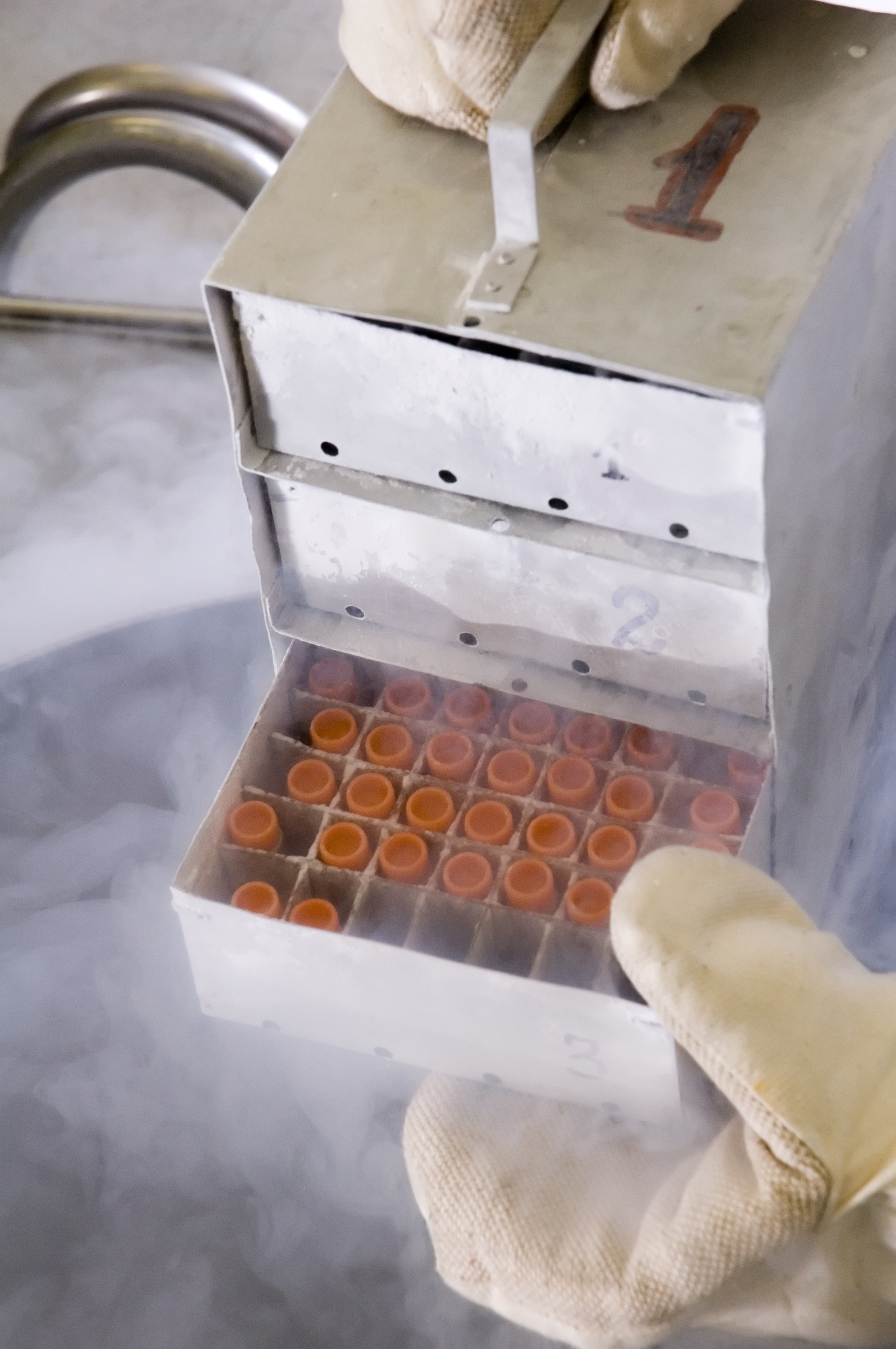 Low temperature storage (in liquid nitrogen) with cryotubes